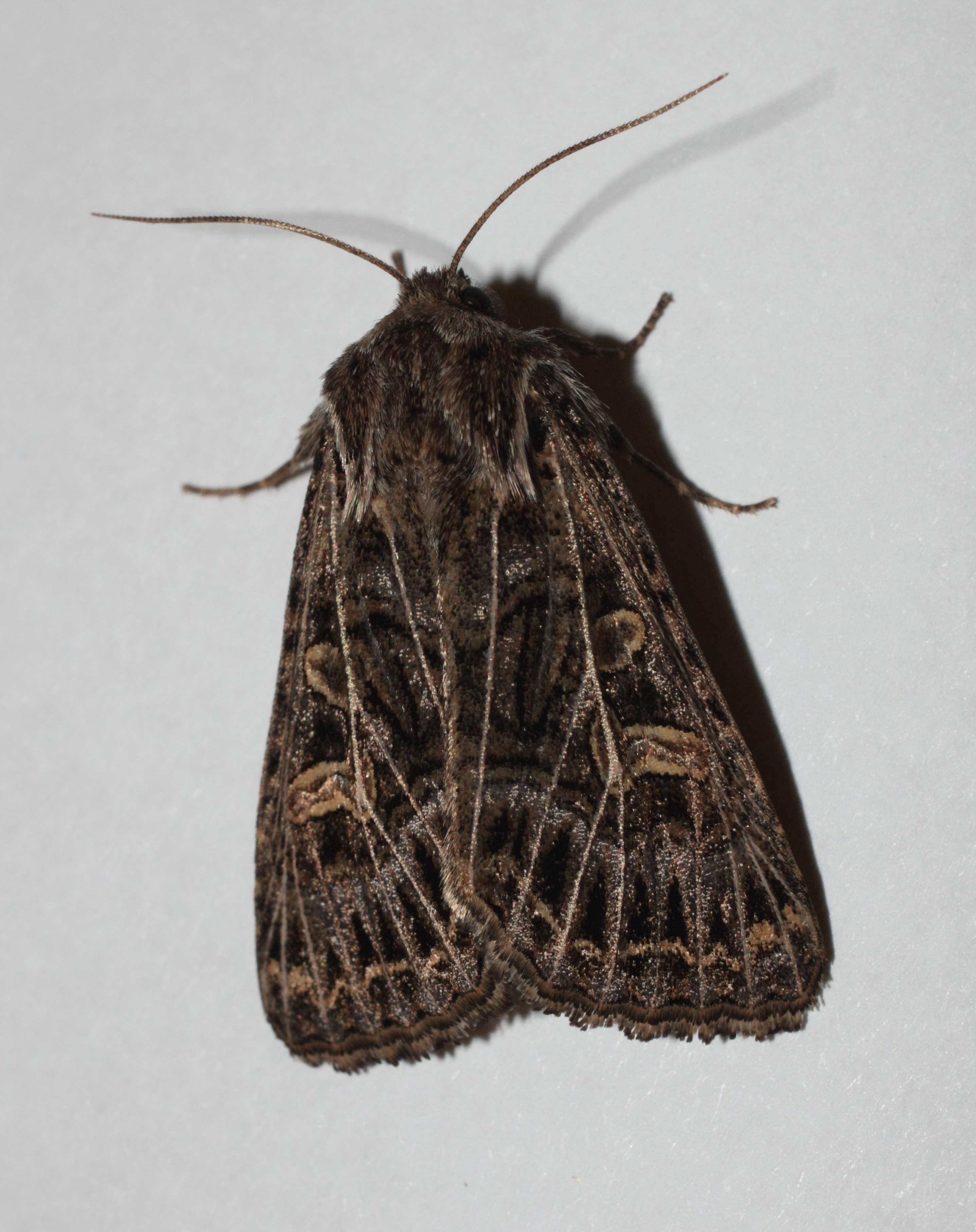 Tholera decimalis, picture taken in Styria, near Graz